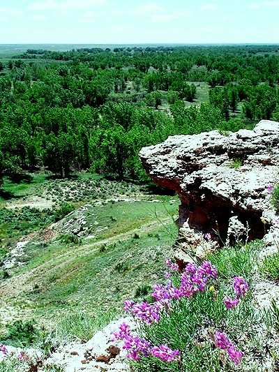 A photograph of Point of Rocks in the Cimarron National Grassland